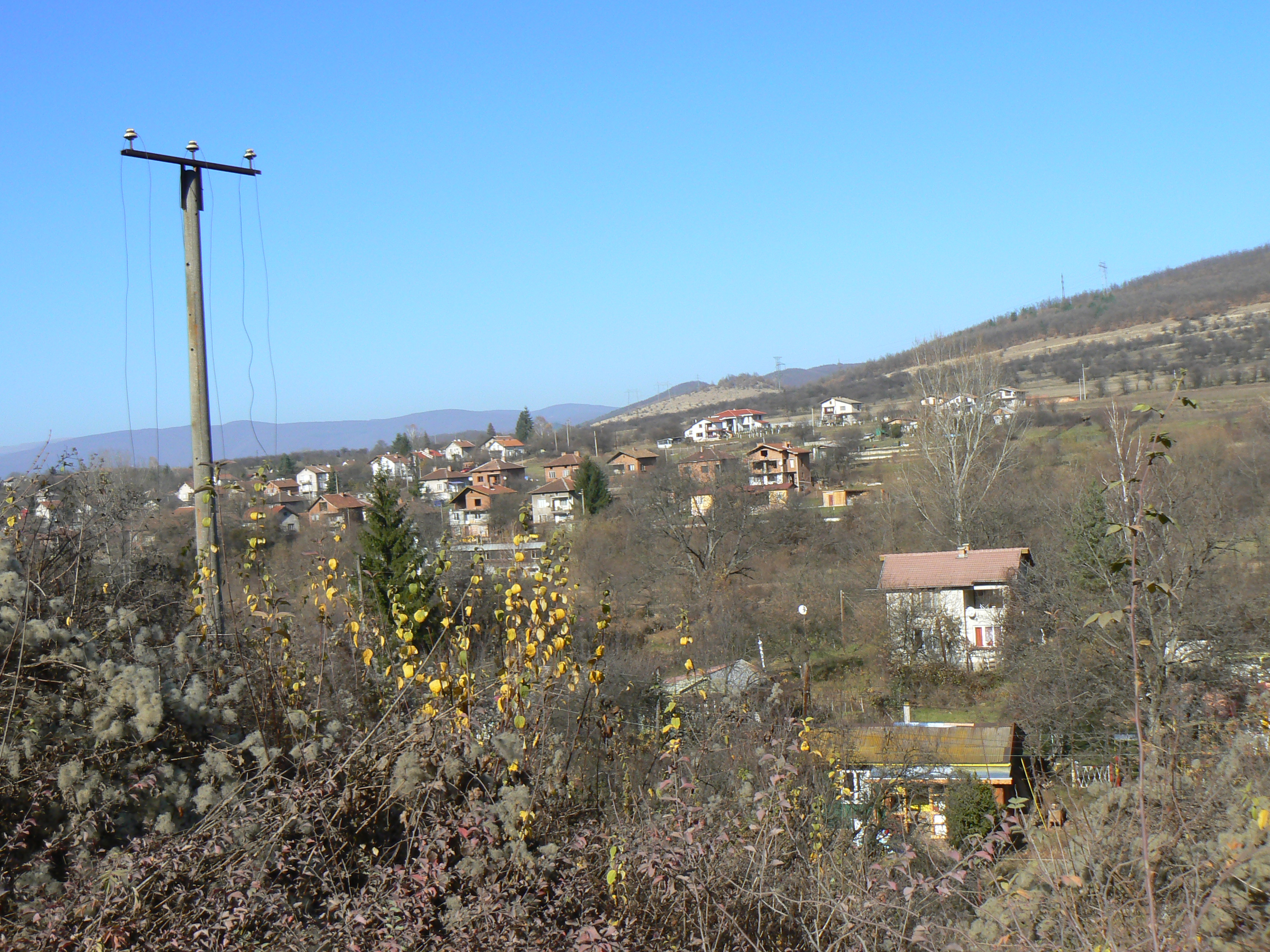 A view towards village Makotsevo, Bulgaria